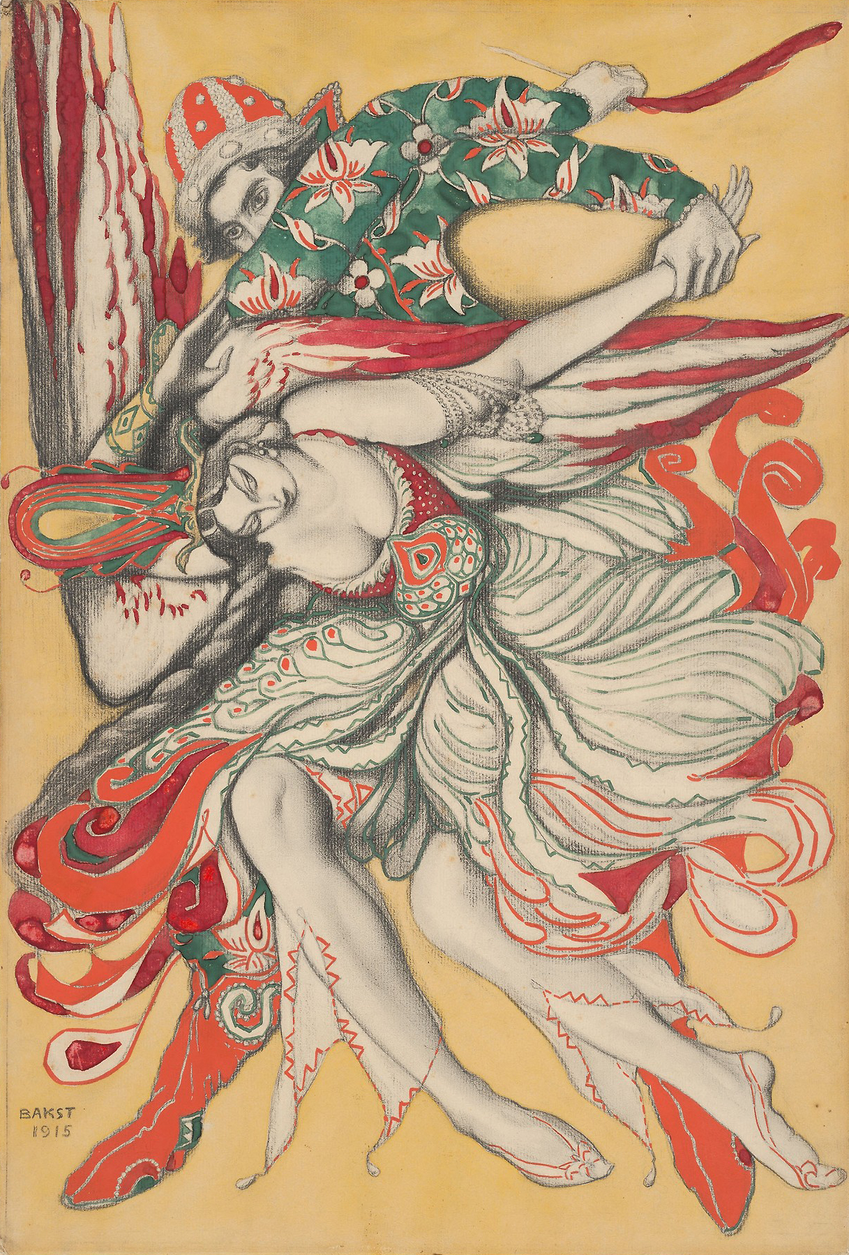 Drawing by Léon Bakst of tsarevitch Ivan capturing the Firebird, for the Ballets Russes ballet L'Oiseau de Feu. Signed and dated in the lower left corner.